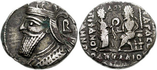 Coin of Vologases IV, a Parthian ruler.